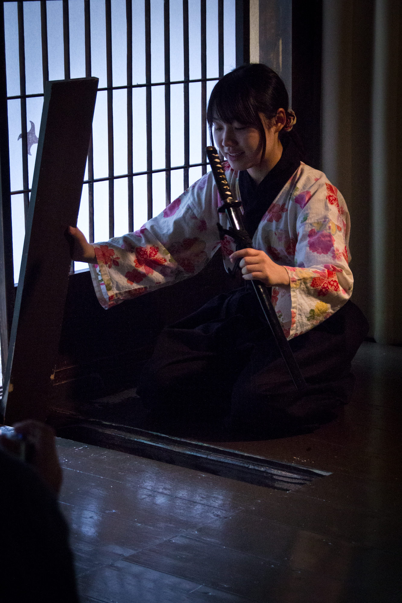 Ninja show at Iga Ninja Museum, Ueno, Japan